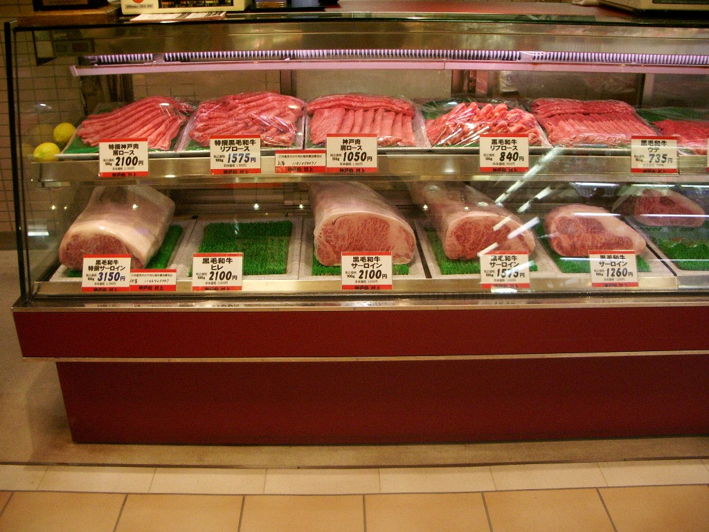 Paul Nash, Own Picture, None, This was a picture I took myself in Japan